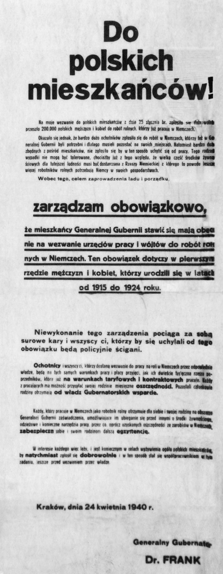 Announcement by Hans Frank about force labor